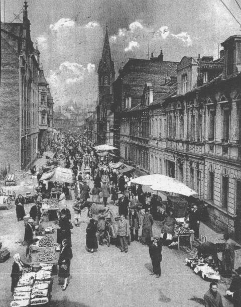 A market at former Císařská street (Emperor's street), nowdays Doubravska street in Trnovany